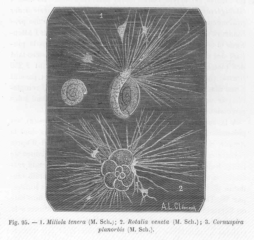 Subject: Protozoa, Miliola, Rotalia, Cornuspira Tag: Invertebrates